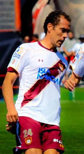 Argentine player Lucas Bovaglio